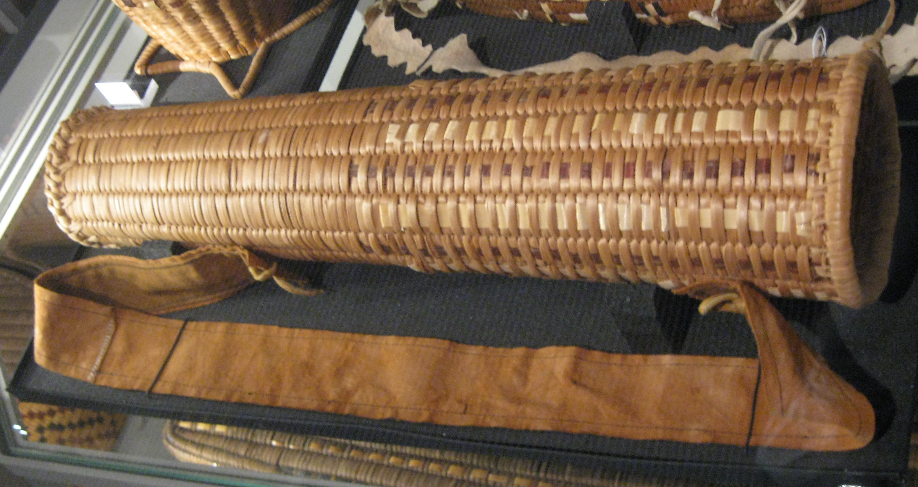 A traditional native American Stl'atl'imx people's quiver at UBC's Museum of Anthropology in Vancouver, Canada. Its catalogue number is A7252.